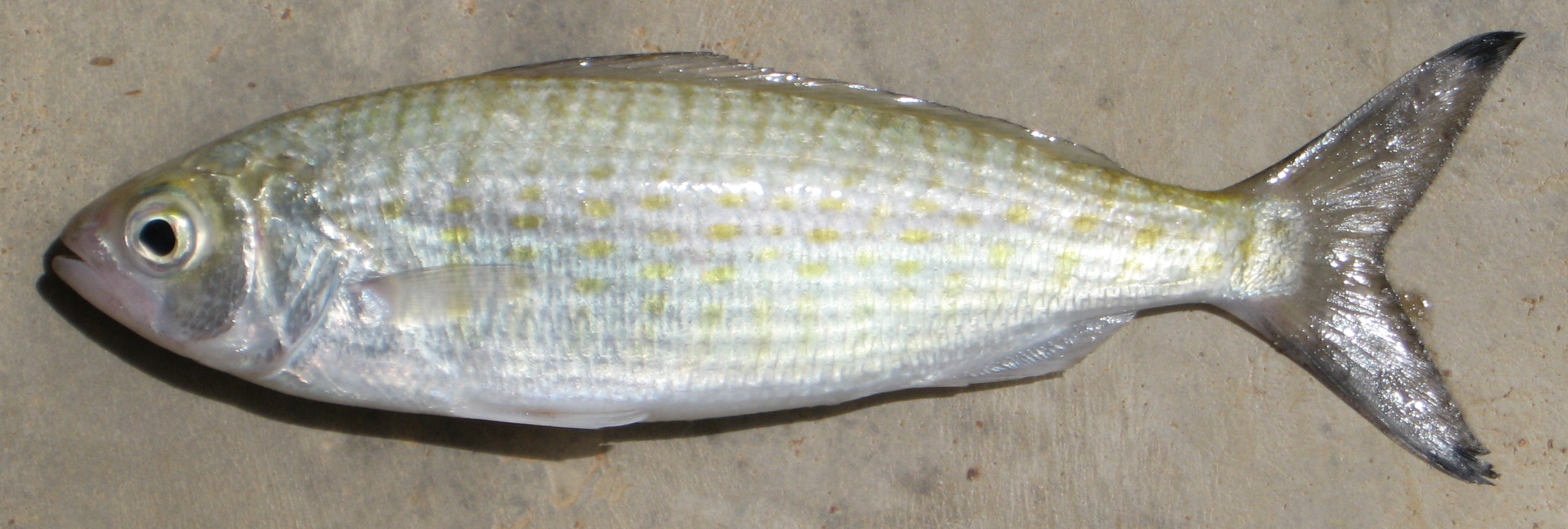 Photo of a Tommy Ruff (Arripis georgianus) caught off Adelaide, South Australia